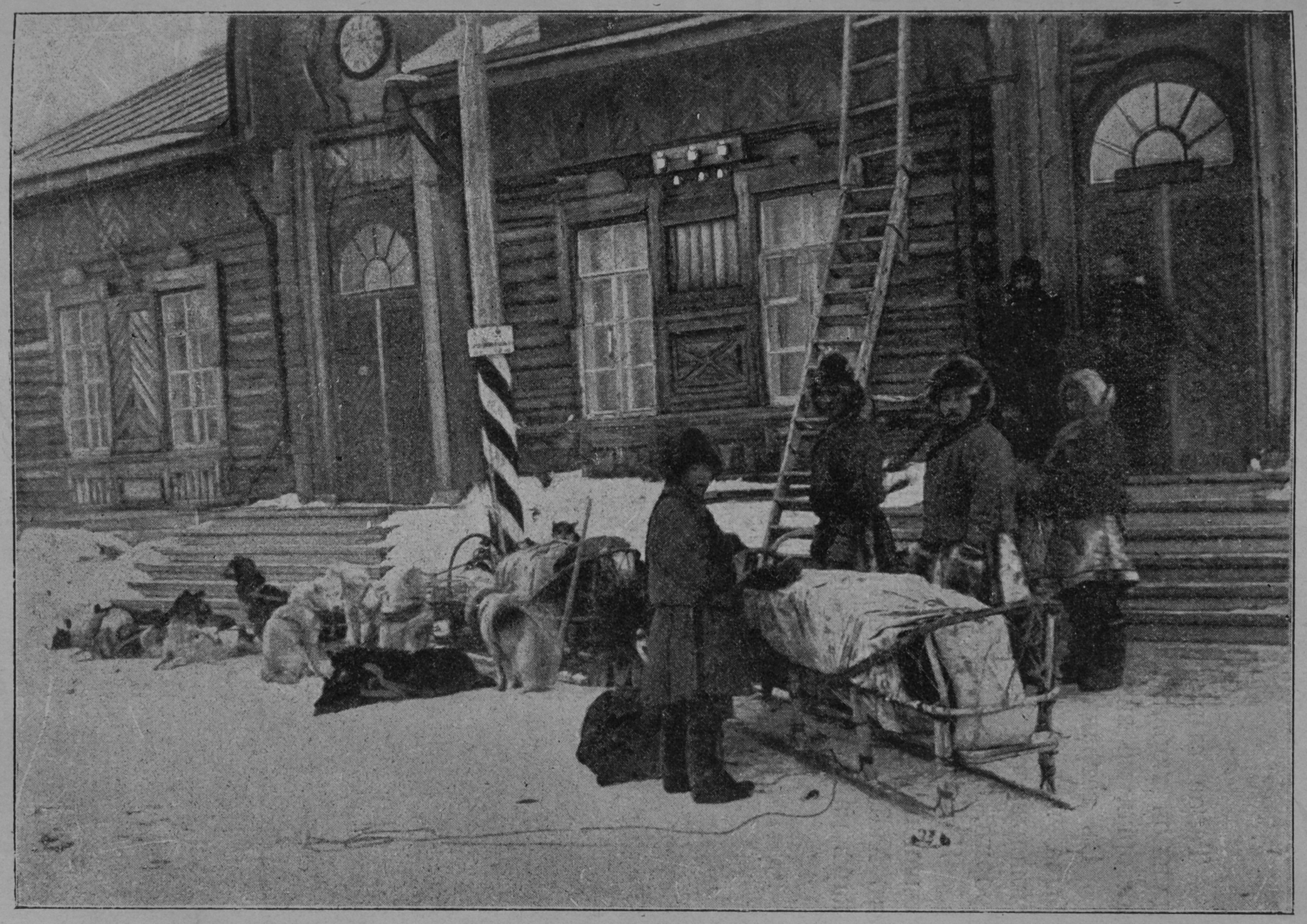 Native people of Sakhalin. Nivkhs. Winter mail